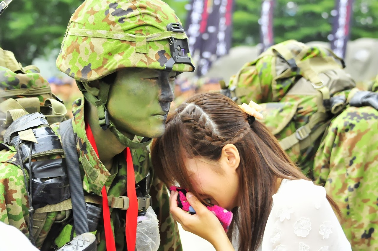 Title 「おかえり!」.jpg Album 教育訓練等 レンジャー教育 帰還式（第１普通科連隊・練馬）